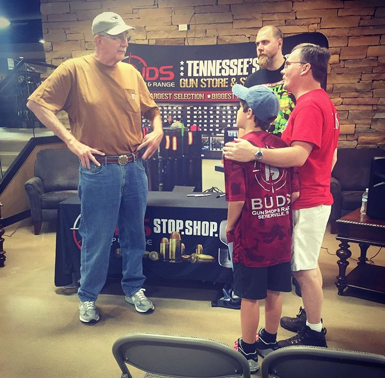 Greg and John Kinman in 2016 with fans